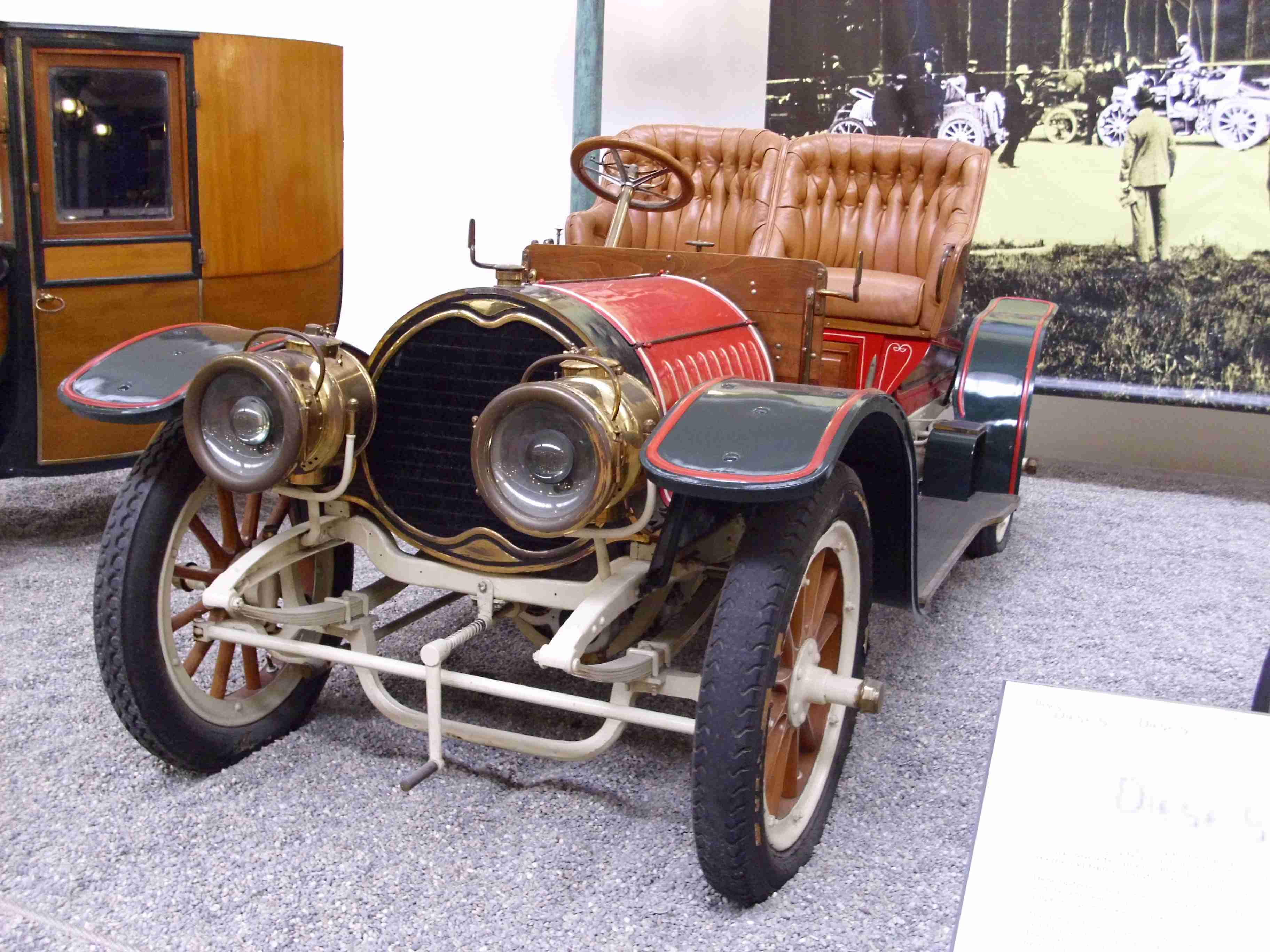 Sage 24 CV with summer coachwork (1906). The owner ordered a second, enclosed body for winter use (visible at left). Bodies were switched in spring and autumn, the body not in use was stored in a garage or at the dealer's premises. This was no uncommon procedure at that time.